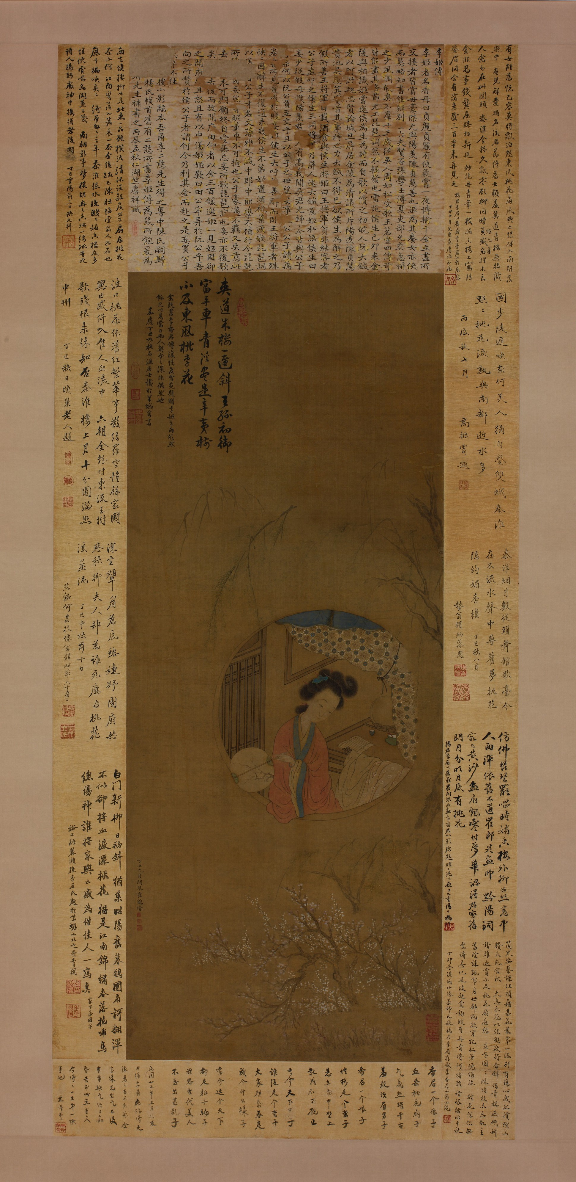 Hanging scroll of the courtesan Li Xiangjun (李香君), who inspired Kong Shangren to write his play The Peach Blossom Fan. Painted in the Qing dynasty by Cui He. The writing above the painting comes from a biography of Li Xiangjun by Hou Fangyu (侯方域).